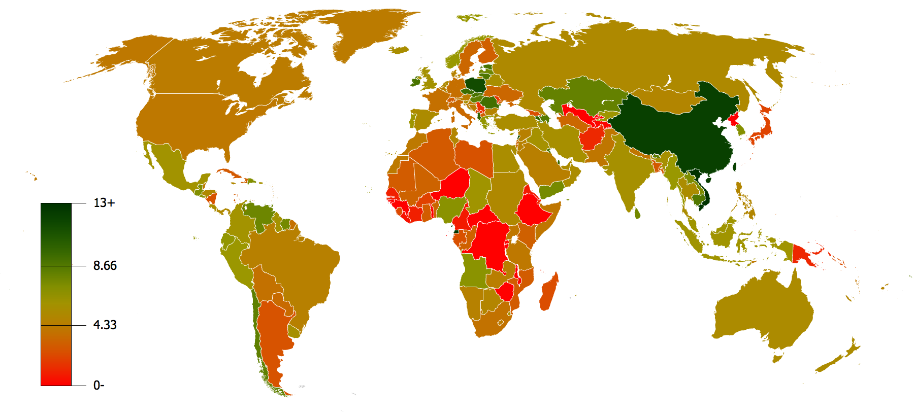 The GDP growth per capita numbers were calculated from 1990 to 2007, and are reflected in the Wikipedia list of countries by GDP growth 1990–2007. For more information see also the respective disclaimer.